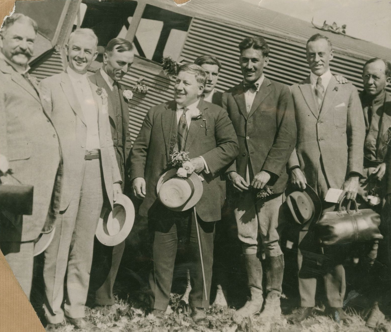 Gift to the Oakland History Room by Mayor John L. Davie. Photograph taken at Durant Field following the successful coast-to-coast air mail delivery in all-metal Junker F 13 planes sold by entrepreneur John M. Larsen. Figures depicted, left to right: Mayor John L. Davie (with mustache), unknown, Eddie Rickenbacker, John M. Larsen (aircraft salesman), partially obscured unknown man, Bert Acosta (in cavalry boots), J. J. Rosborough (postmaster), unknown. Original photo part of Oakland Public Library, Oakland History Room. "Public domain. No restrictions on use."